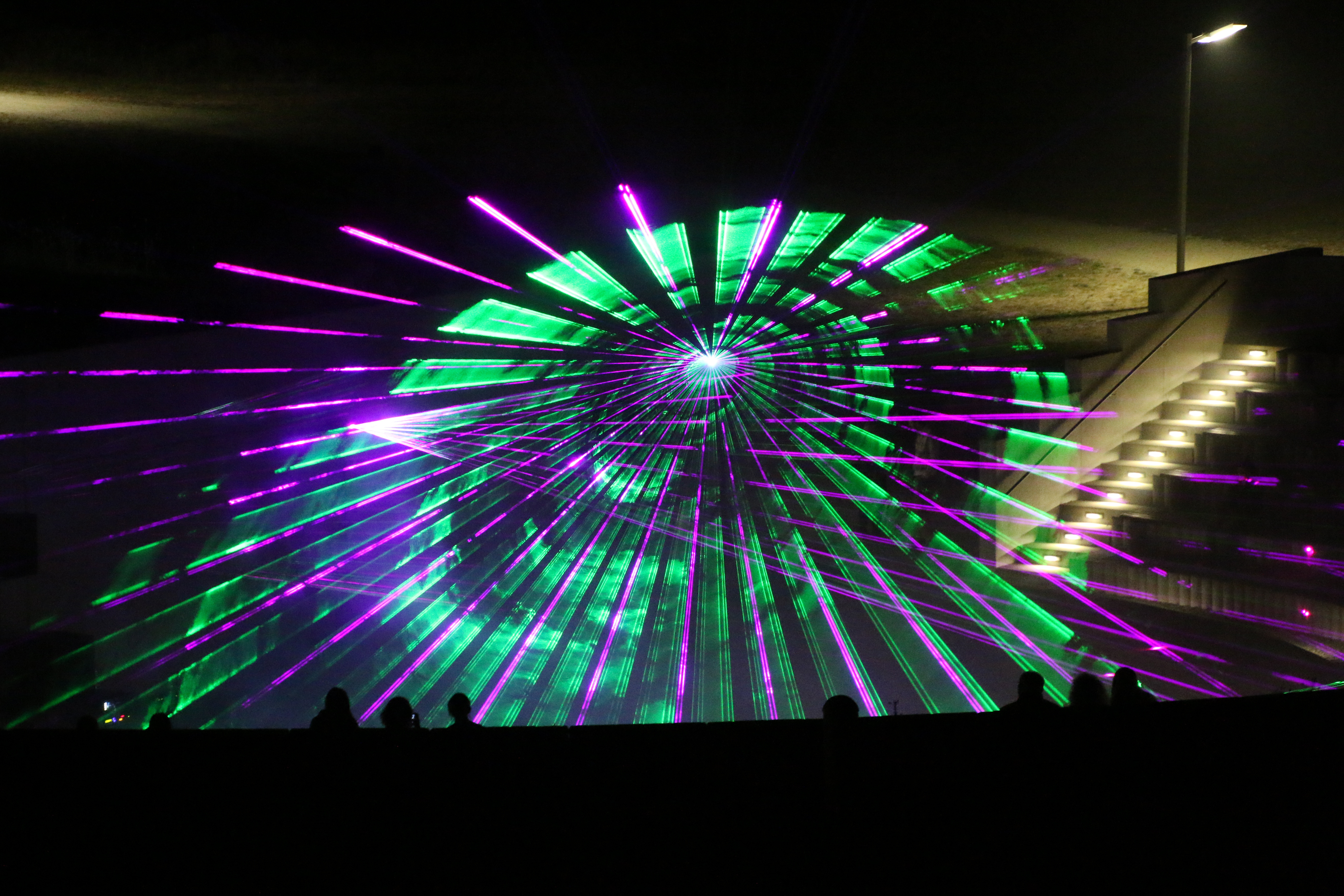 Lasershow on the transNATURALE in Boxberg/O.L.